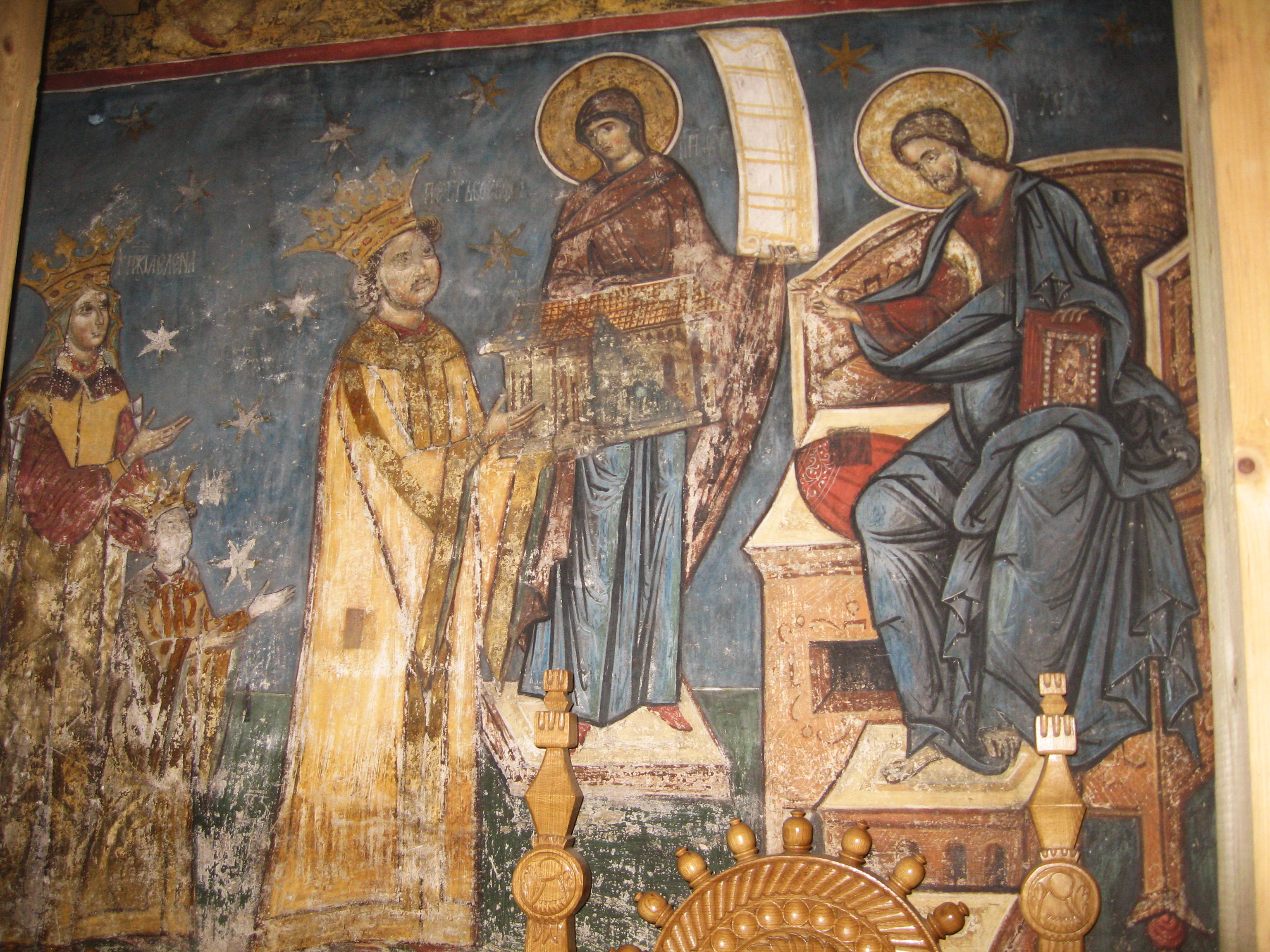 Humor Monastery